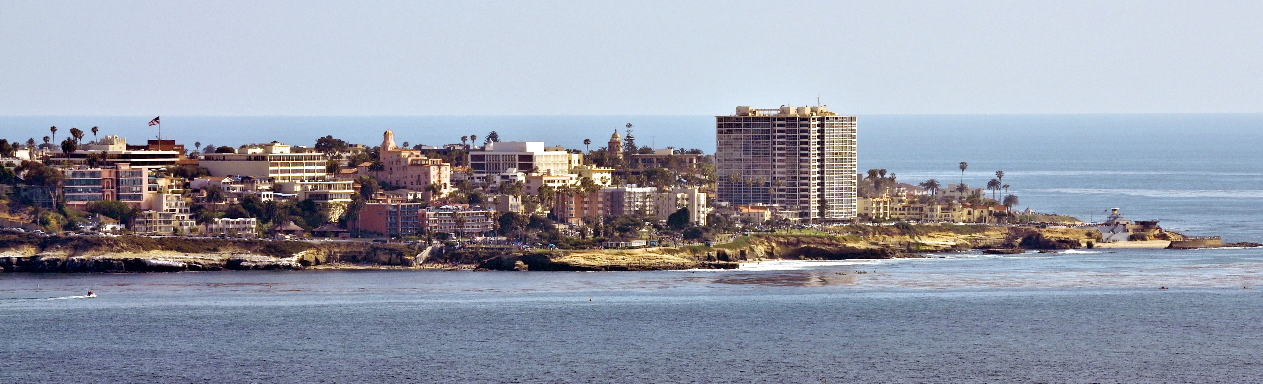 Panorama of the Village of La Jolla skyline taken from La Jolla Shores